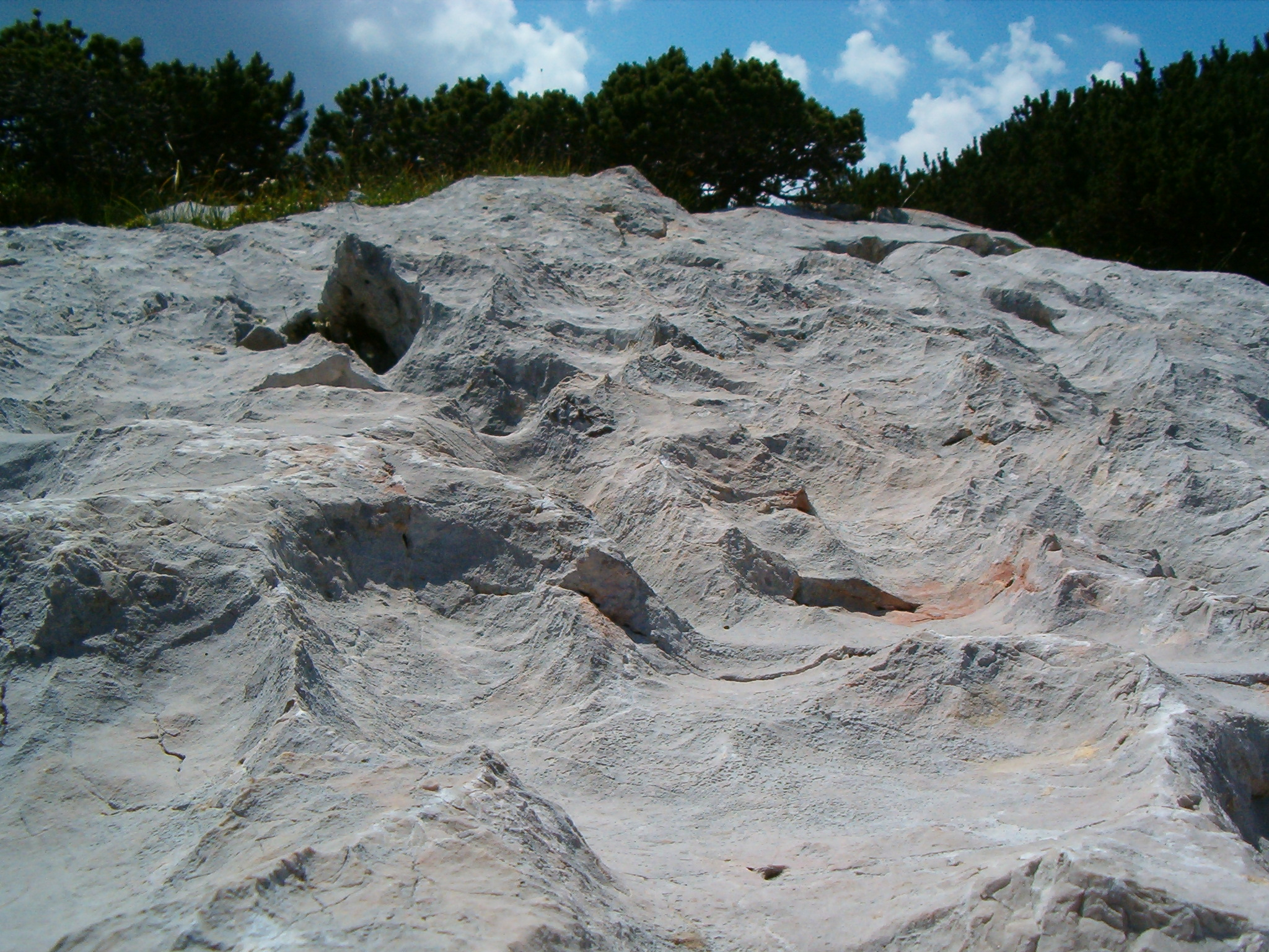 Karren (lapiés, grikes) is part of Karst topography. Picture from Austria near Hallstat, Oberösterreich.